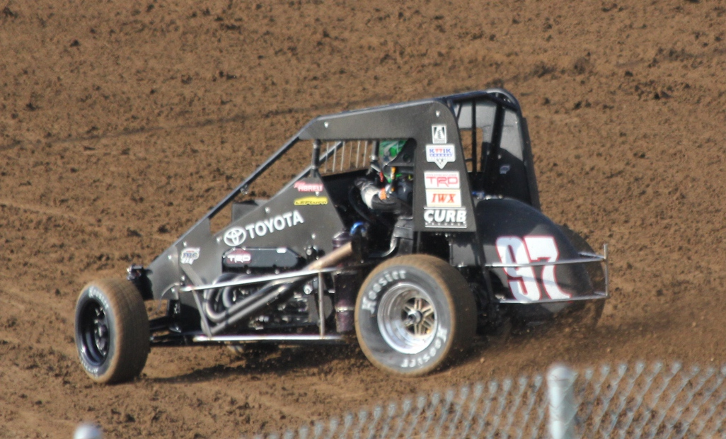 The midget car of Rico Abreu racing at Angell Park Speedway. The event was co-sanctioned by USAC, POWRi, and BMARA. He was the 2014 USAC National Midget champion and he races for Curb Racing.